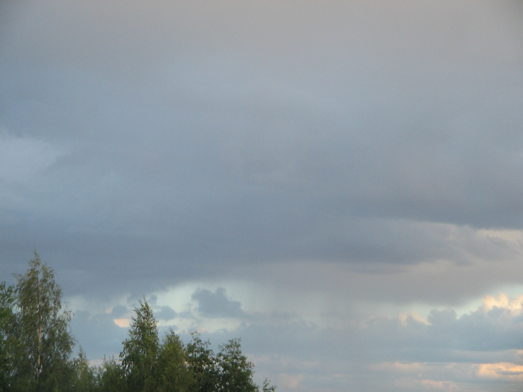 Rain shower after cold front. Rain is seen middle-down the image. Balow rainy cloud there isband-like Cumulus castellanus-cloud.